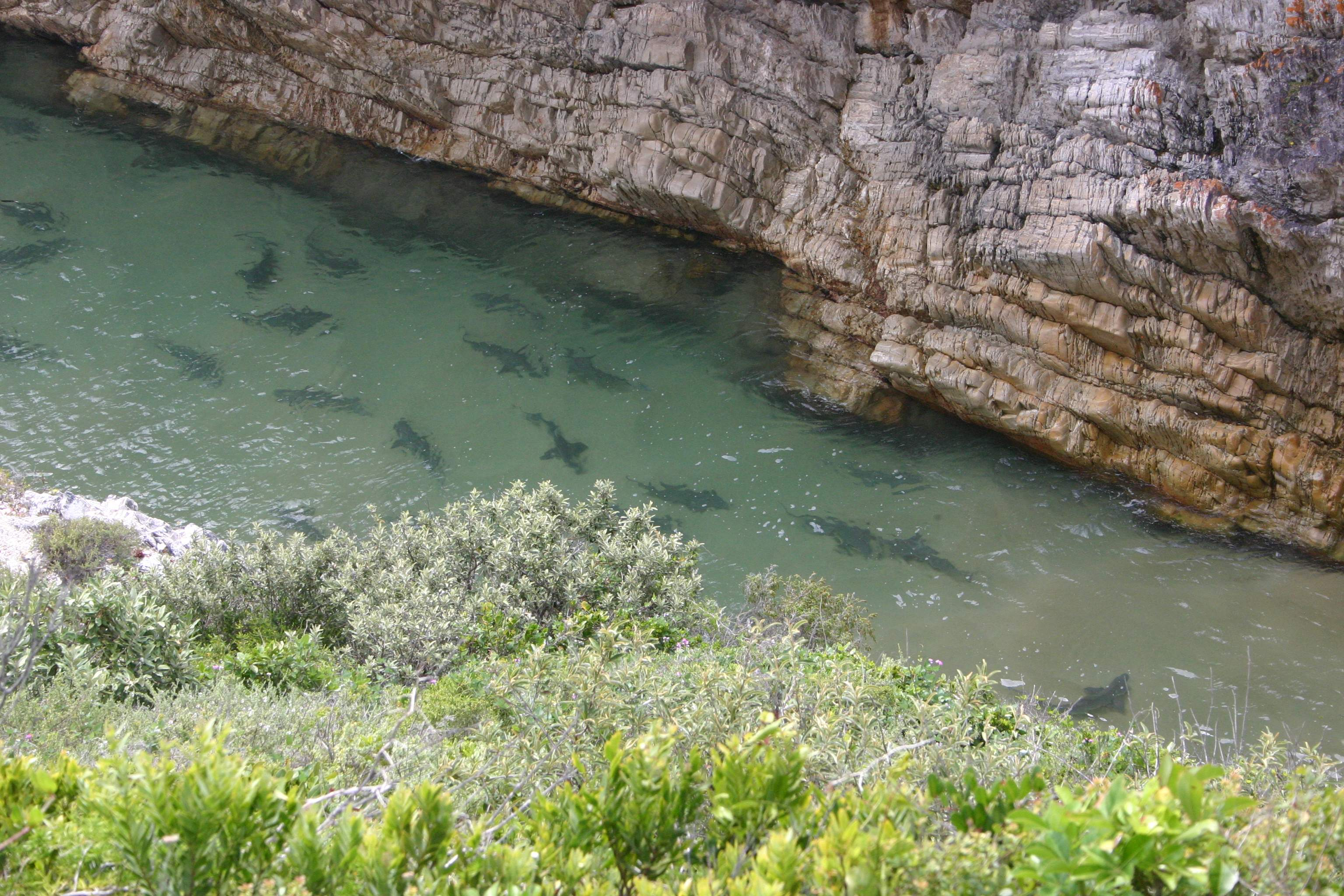 Spotted Gully Sharks along Garden Route, South Africa